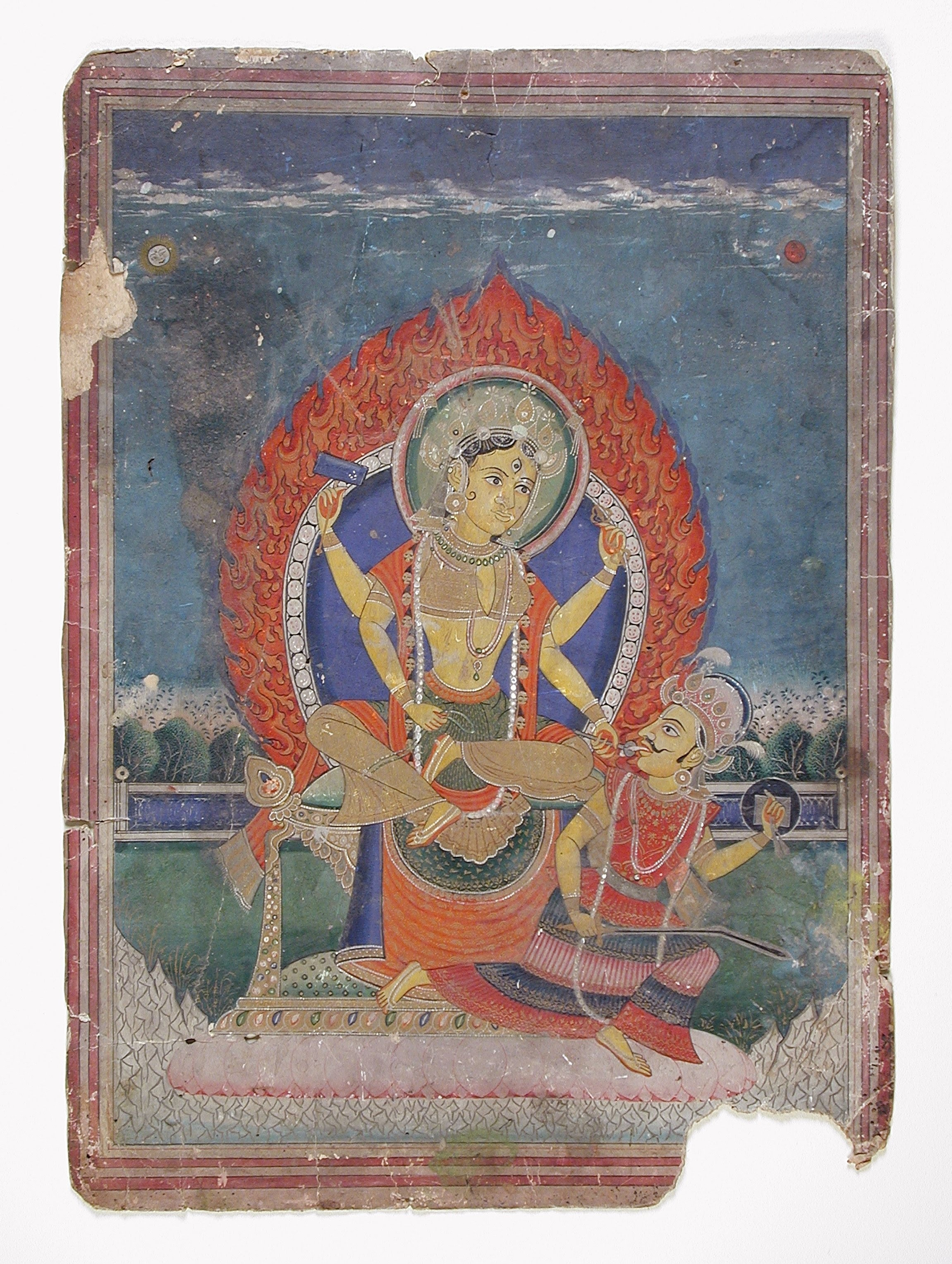 Bagalamukhi Matrika, 19th century Painting; Watercolor, Opaque watercolor on paper, 13 7/8 x 10 in. (35.24 x 25.4 cm)